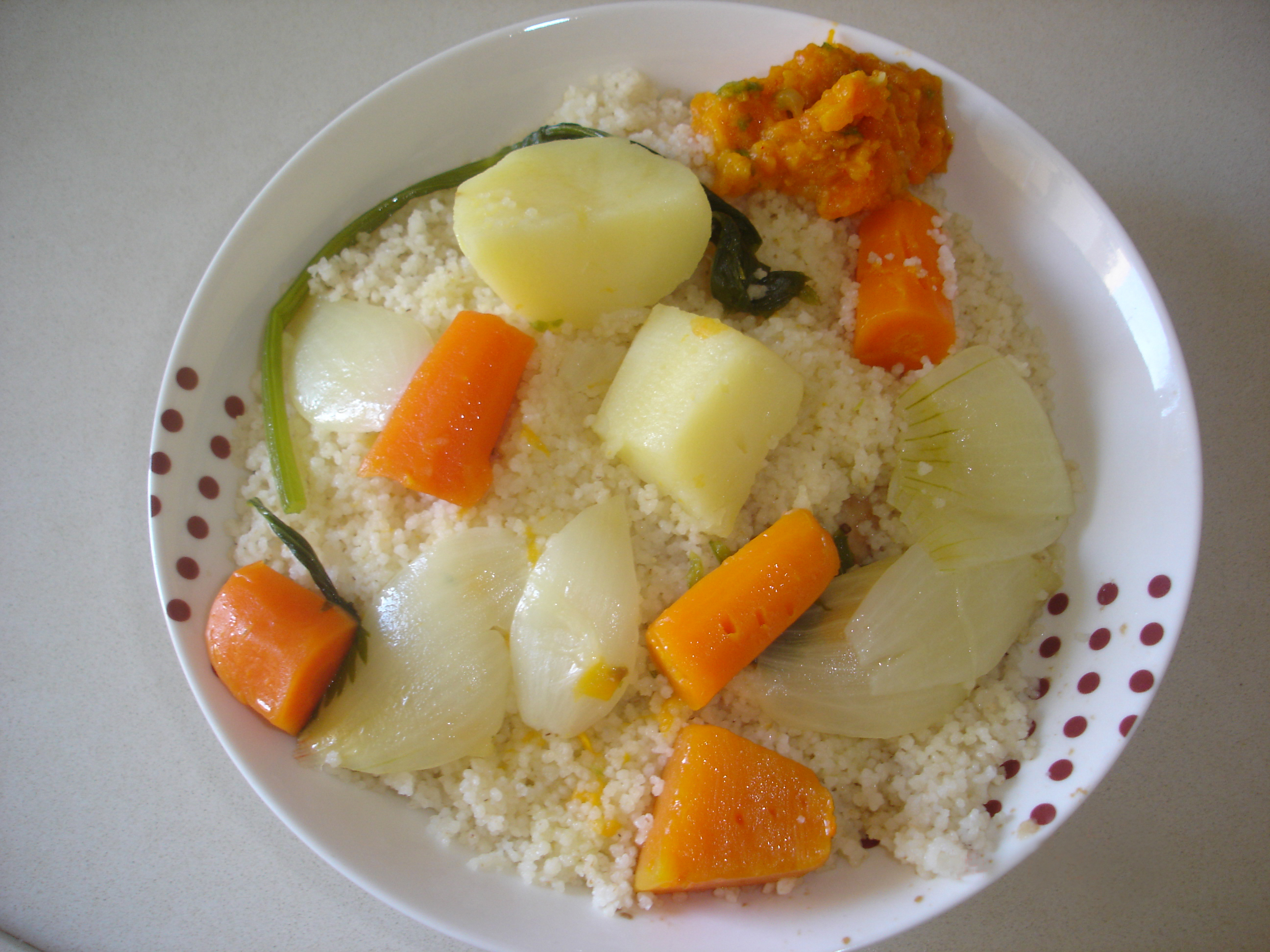 couscous with vegetables